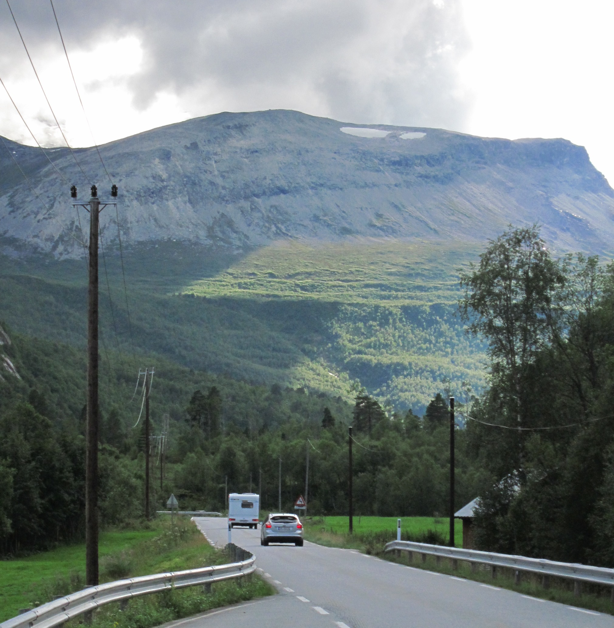 Road 63 through Valldal, towards south (downstream)